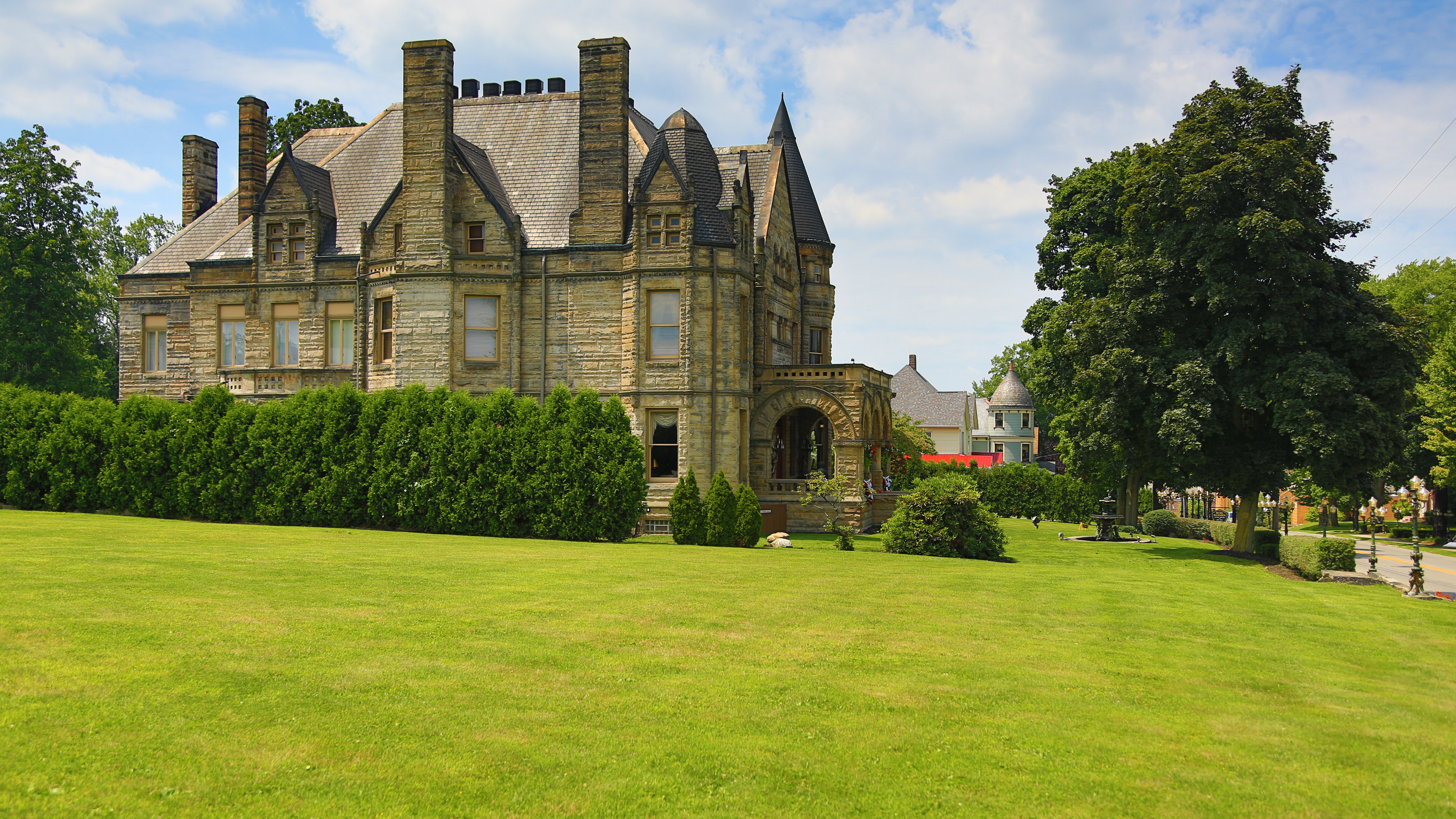 ShareAlike — If you remix, transform, or build upon the material, you must distribute your contributions under the same license as the original. Camera: Canon EOS 5D Mark III Lens : EF24-105mm f/4L IS USM at 32 mm Light Setting: f/4 1/500 s ISO 100